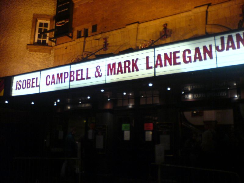 Photo of the billing for an Isobel Campbell/Mark Lanegan gig in Shepherd's Bush, London on January 23, 2007. Image taken from this photograph from Flickr user fotologic, licensed under Creative Commons Attribution 2.0 Generic.